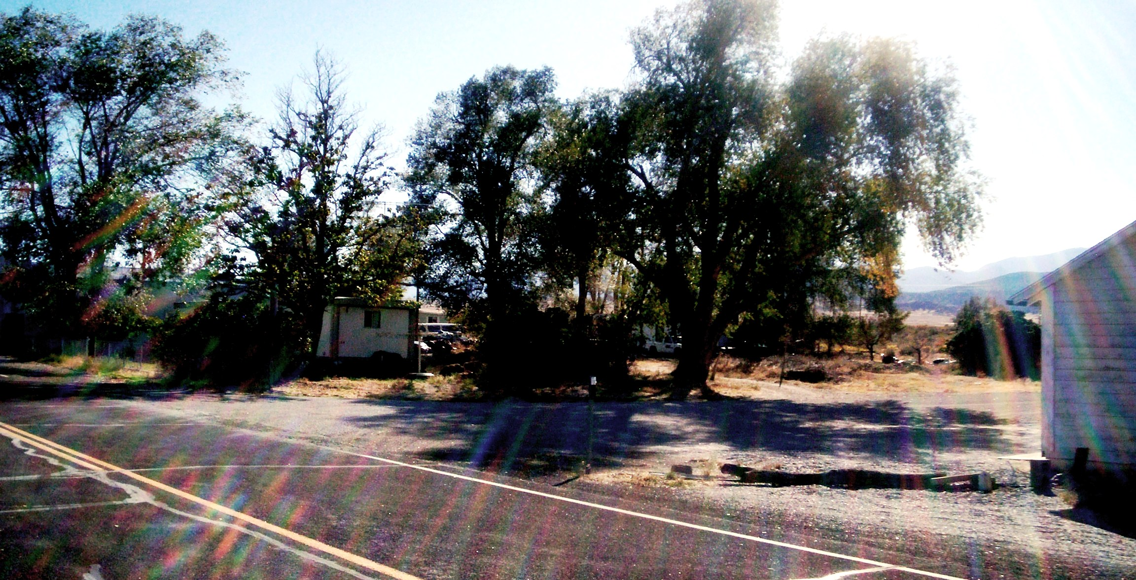 Garrison, Utah by David Jolley 2007.